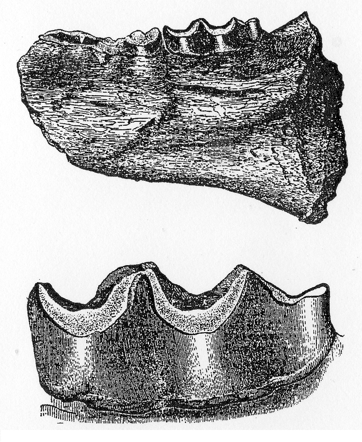 first known tooth of brontotheres published by Prout 1847, reprinted in First tooth of Brontotheres published by Prout 1847, reprinted in Donald R. Prothero and Robert M. Schoch: Horns, tusks, and flippers. The evolution of hoofed mammals. Johns Hopkins University Press, Baltimore, 2003, ISBN 0-8018-7135-2 (p. 230)